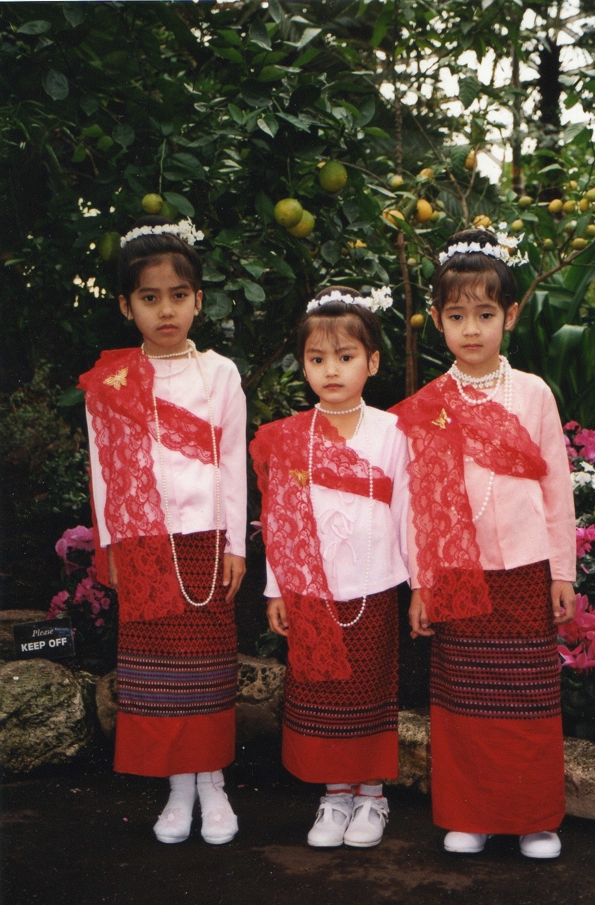 Young Mon girls wearing the traditional dress